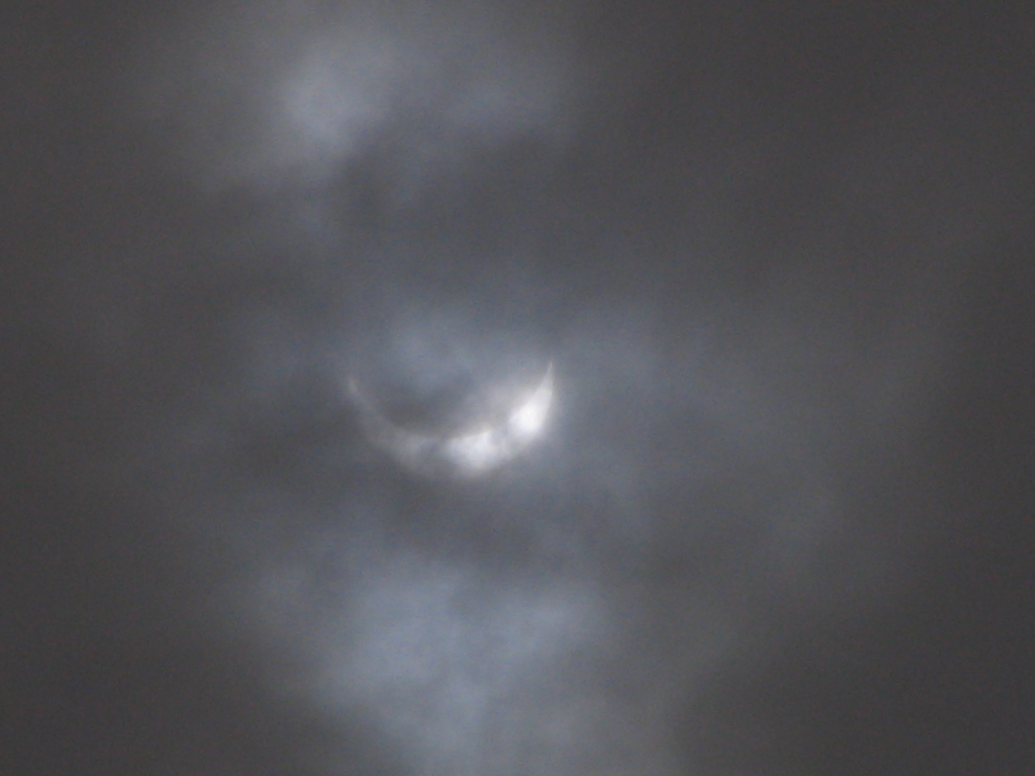 Solar eclipse beyond clouds 1 august 2008. Kisegatch, Chelyabinsk region